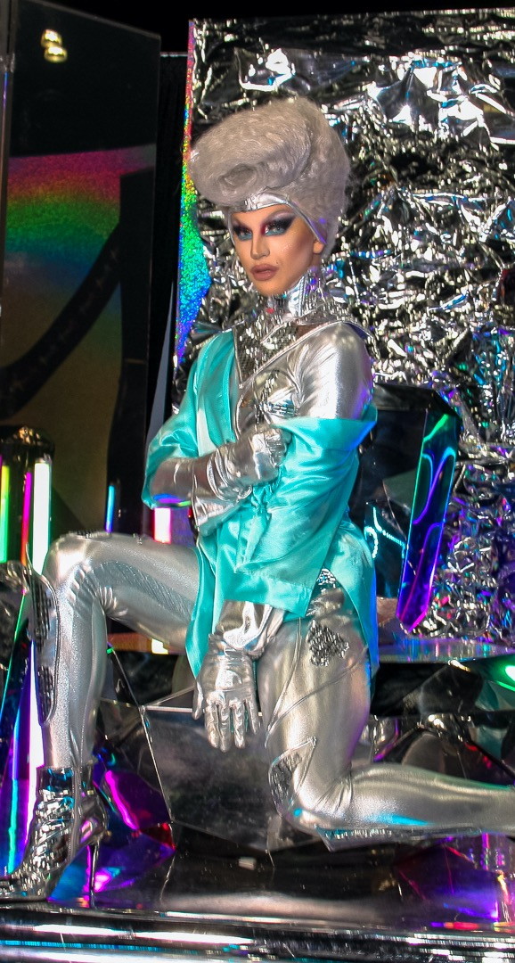 Aquaria at Rupaul's DragCon 2019